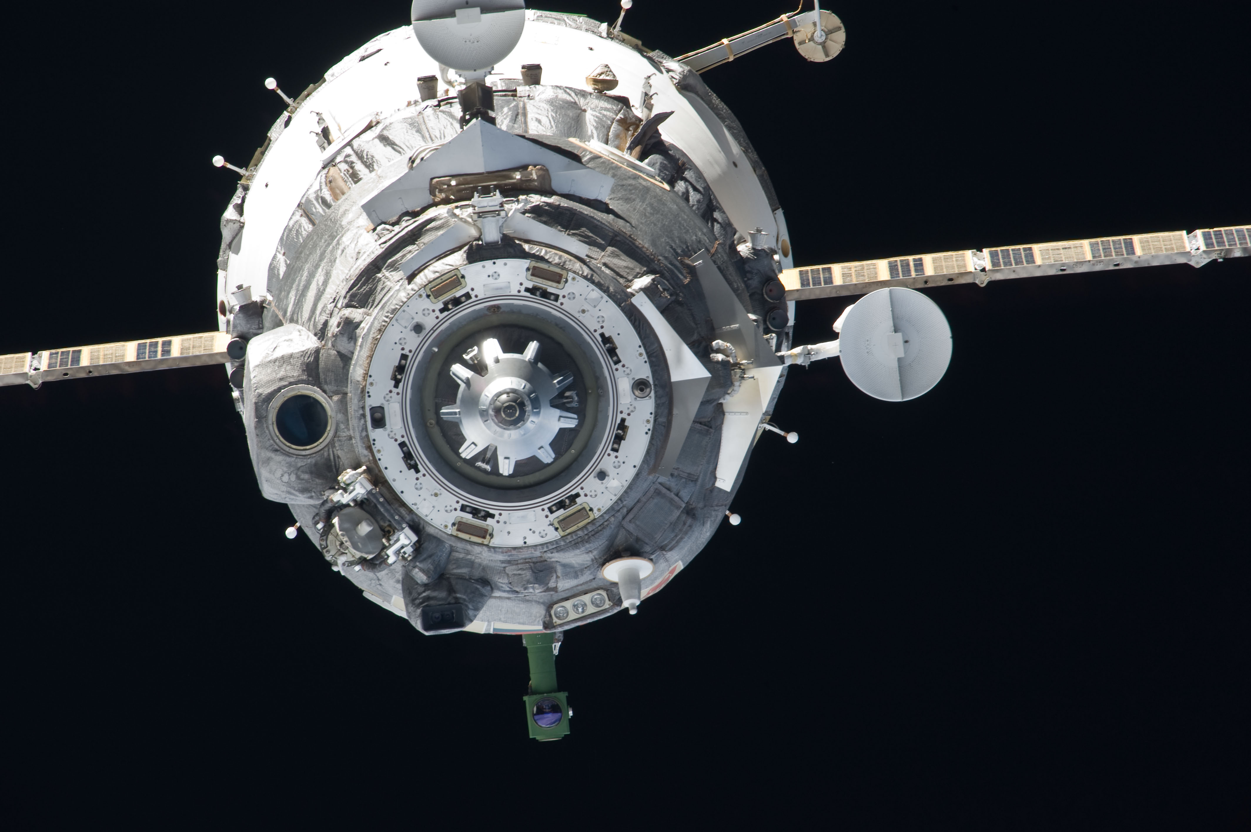 The Soyuz TMA-20 spacecraft departs from the International Space Station on May 23, 2011. Onboard are three members of Expedition 27 – Russian cosmonaut Dmitry Kondratyev, Expedition 27 and Soyuz commander; NASA astronaut Cady Coleman and European Space Agency astronaut Paolo Nespoli, both flight engineers. Kondratyev was at the controls of the spacecraft as it undocked at 5:35 p.m. (EDT) from the station's Rassvet module. The crew landed safely at 10:27 p.m. southeast of the town of Dzhezkazgan, Kazakhstan.